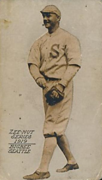 A baseball card of Lyle Bigbee from the 1919 Zeenut set.